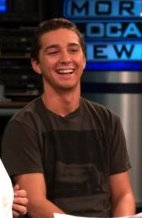 photo of Shia LeBeouf